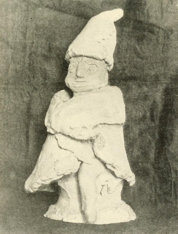 Domovoy, the Slavic god of the household, deified progenitor of the kin. They are represented as statuettes which were kept in niches near the house's door, and later over the ovens. Here is a statuette from Silesia, photographed in the early 20th century.